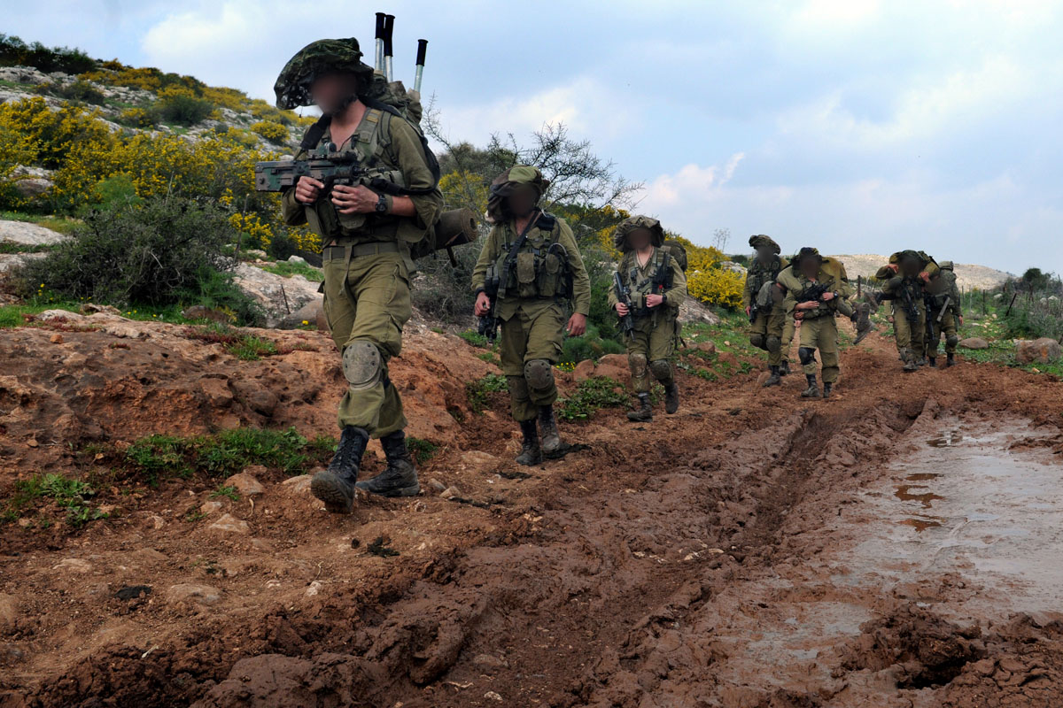 February 27, 2012 Last month, soldiers from the Elite Egot Unit took on their final test- after more than a year of training, they conducted a week of exercise in which they put all of their studying into action. During this week, the soldiers demonstrated their abilities in camouflage, fighting in urban warfare style and much more. The Egoz Reconnaissance Unit is an elite special forces unit of the IDF that specializes in guerrilla warfare. The Egoz Battalion is part of the Northern Command's Golani Brigade. The Israel Defense Forces Facebook The Israel Defense Forces blog Follow us on Twitter